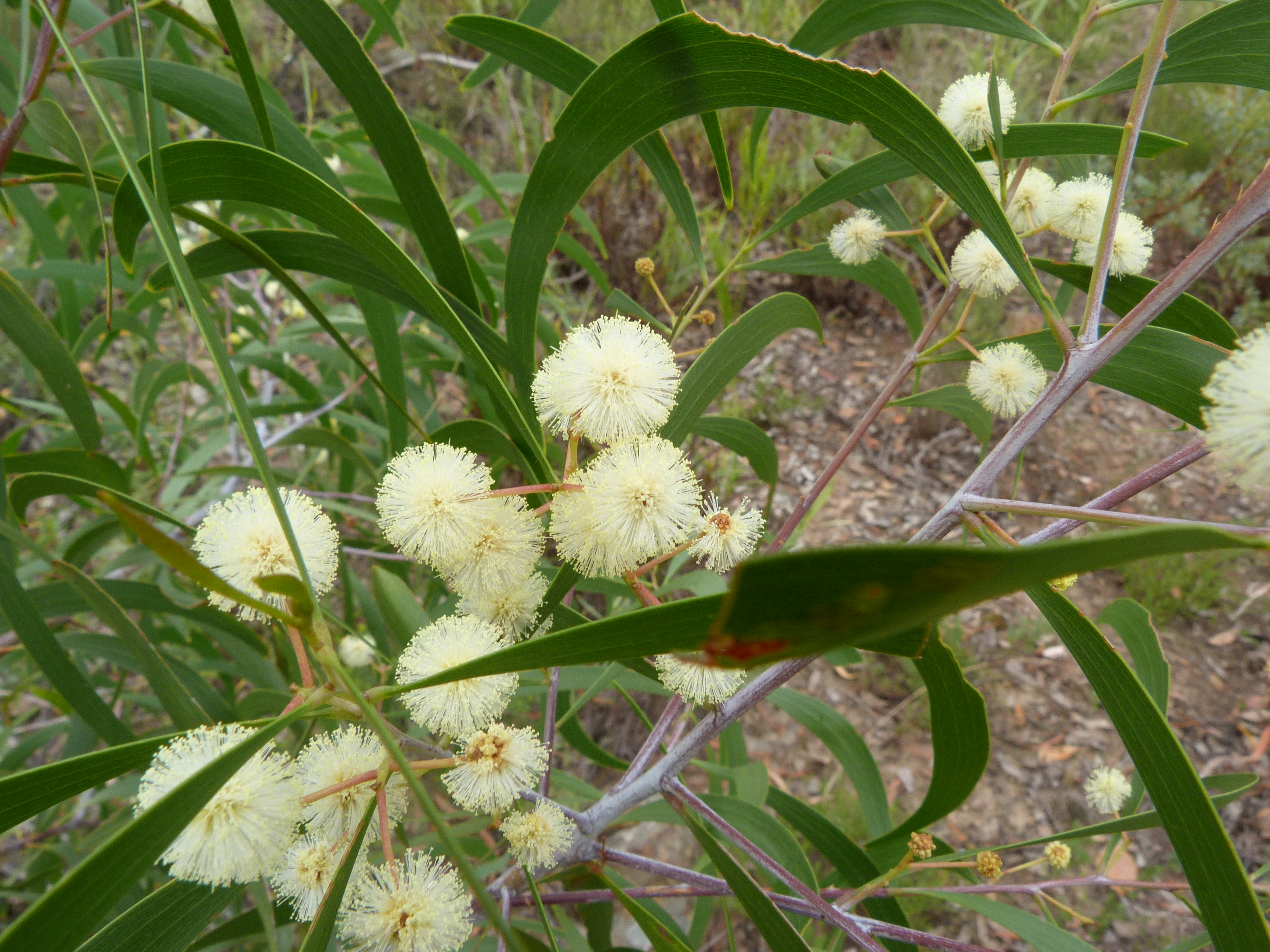 Acacia implexa Benth., Black Mountain, Canberra, ACT, 16 February 2011